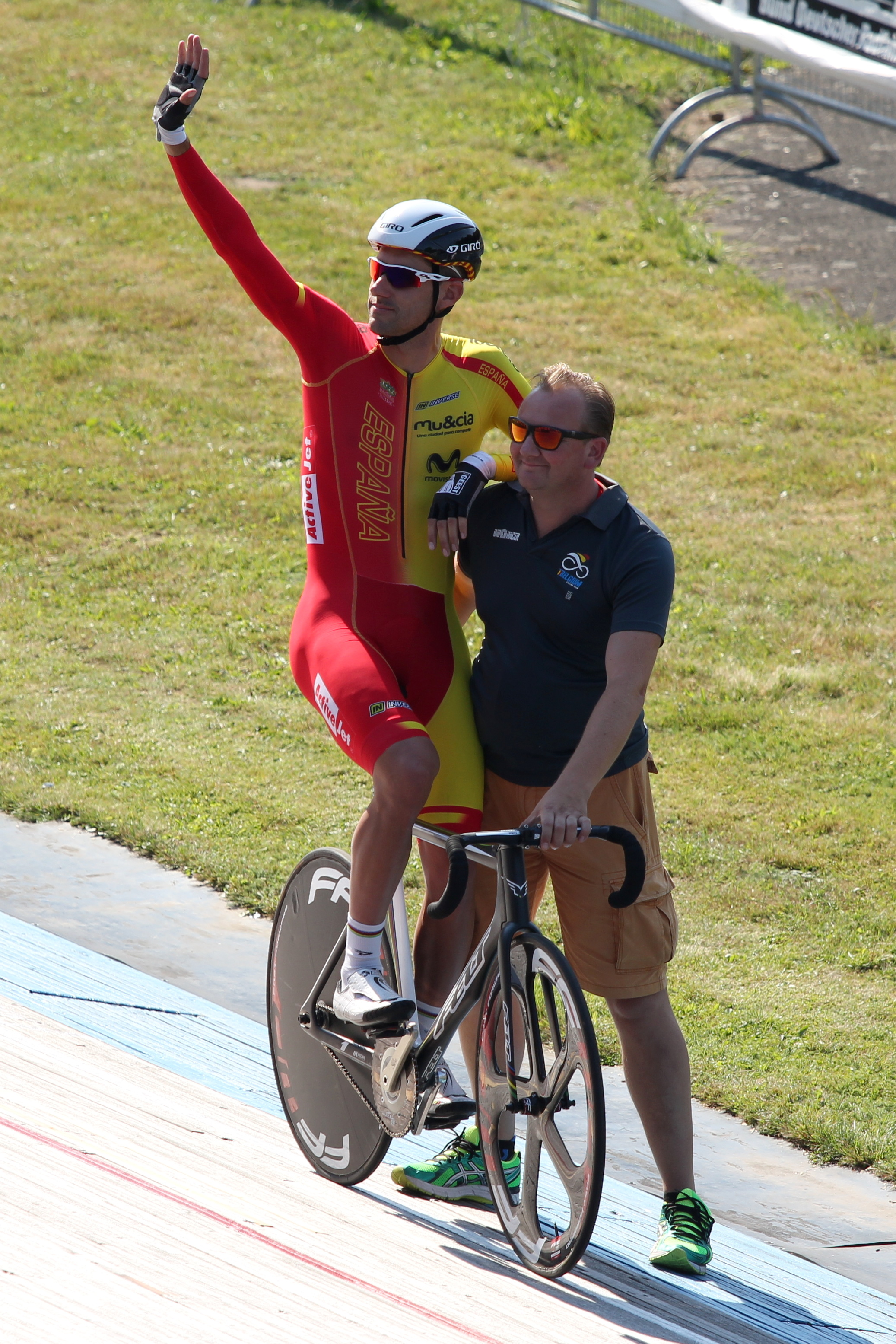 UEC Derny European Championship 2015 - Finals place 10 - 18, 90 laps / 30 km, Rider: David_Muntaner (Spain)